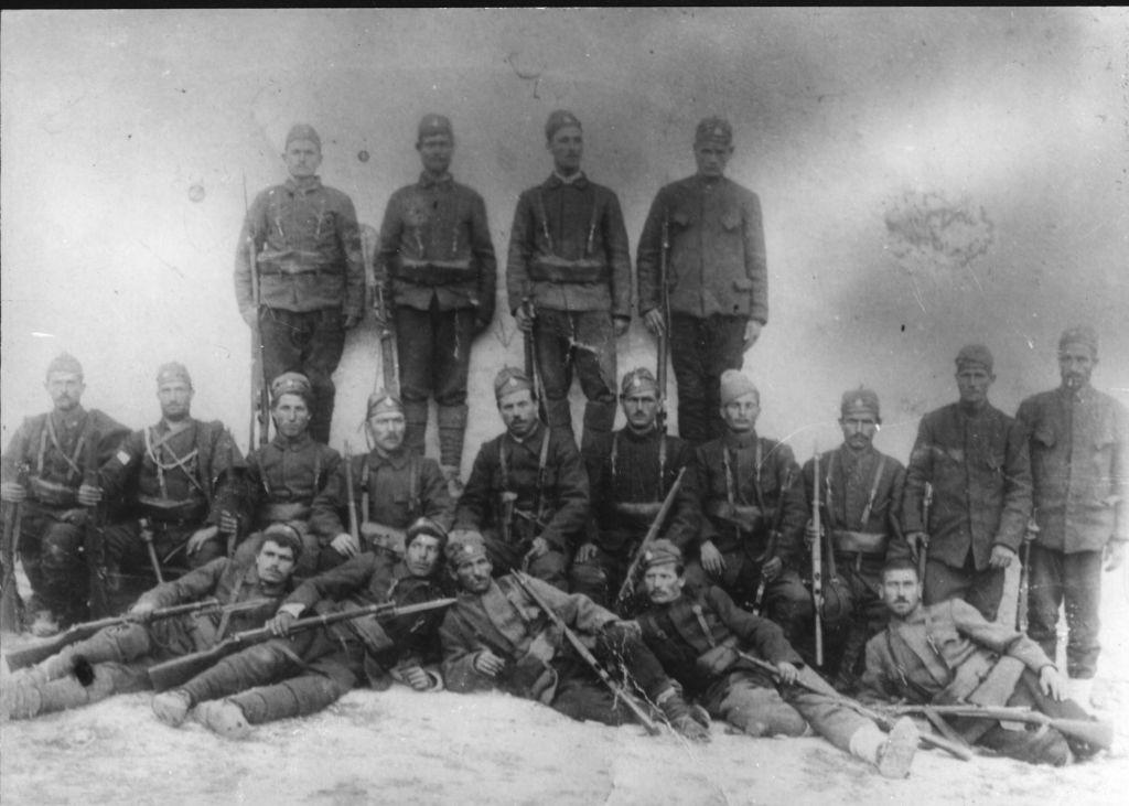 Cheta of IMRO voevoda Atanas Popov from Nevrokop